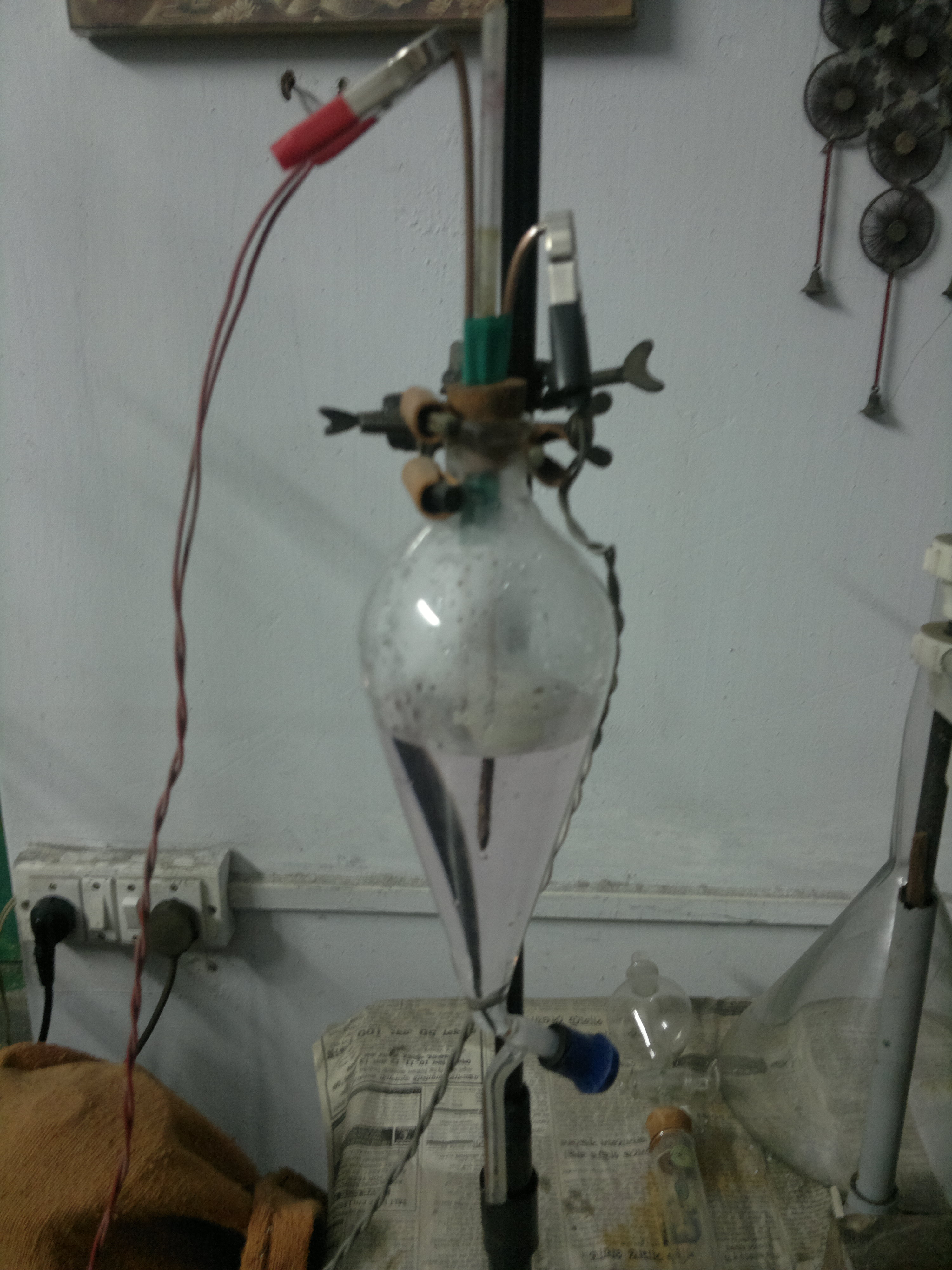 This is an apparatus for the slow chemical reactions for weak reactants under electrical current